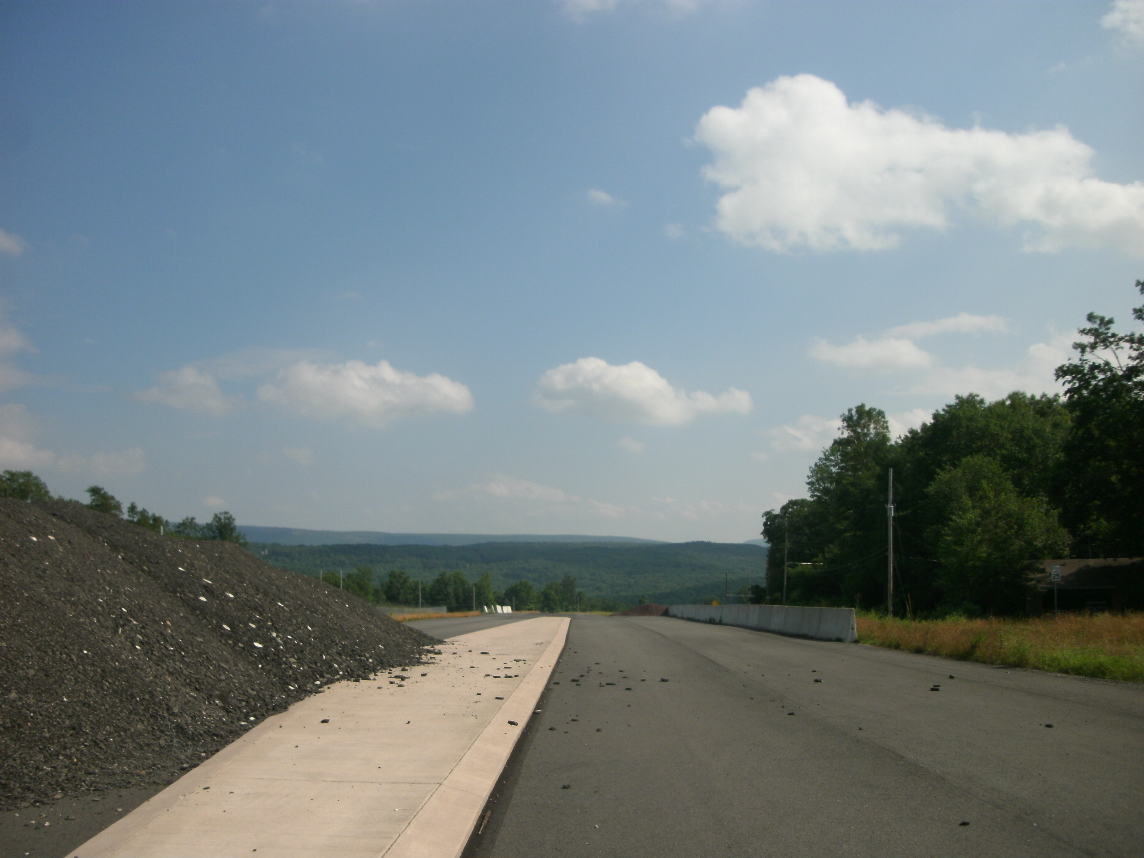 The abandoned right-of-way for the realignment of State Route 402 in Marshalls Creek, Pennsylvania.